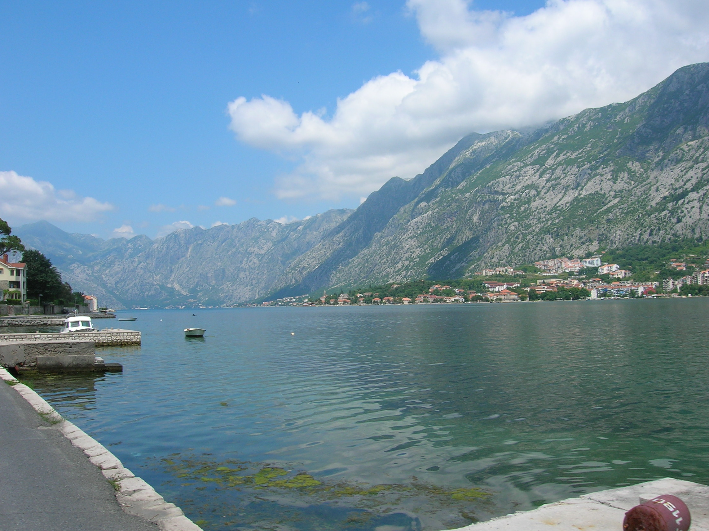 Bay of Kotor and Orjen massif